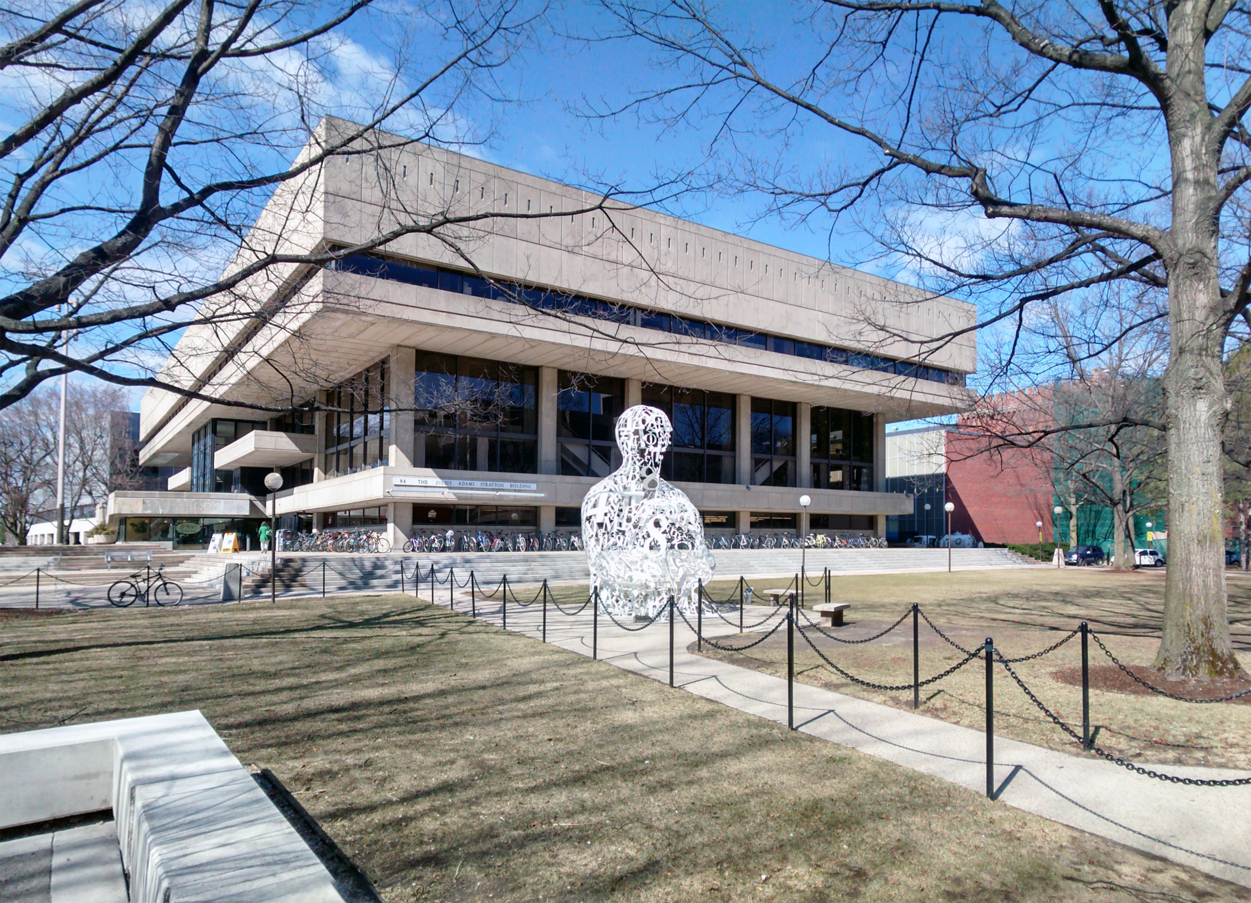 MIT Stratton Student Center, Eduardo Catalano, Massachusetts Institute of Technology Campus, Cambridge, Massachusetts, Apr. 2014